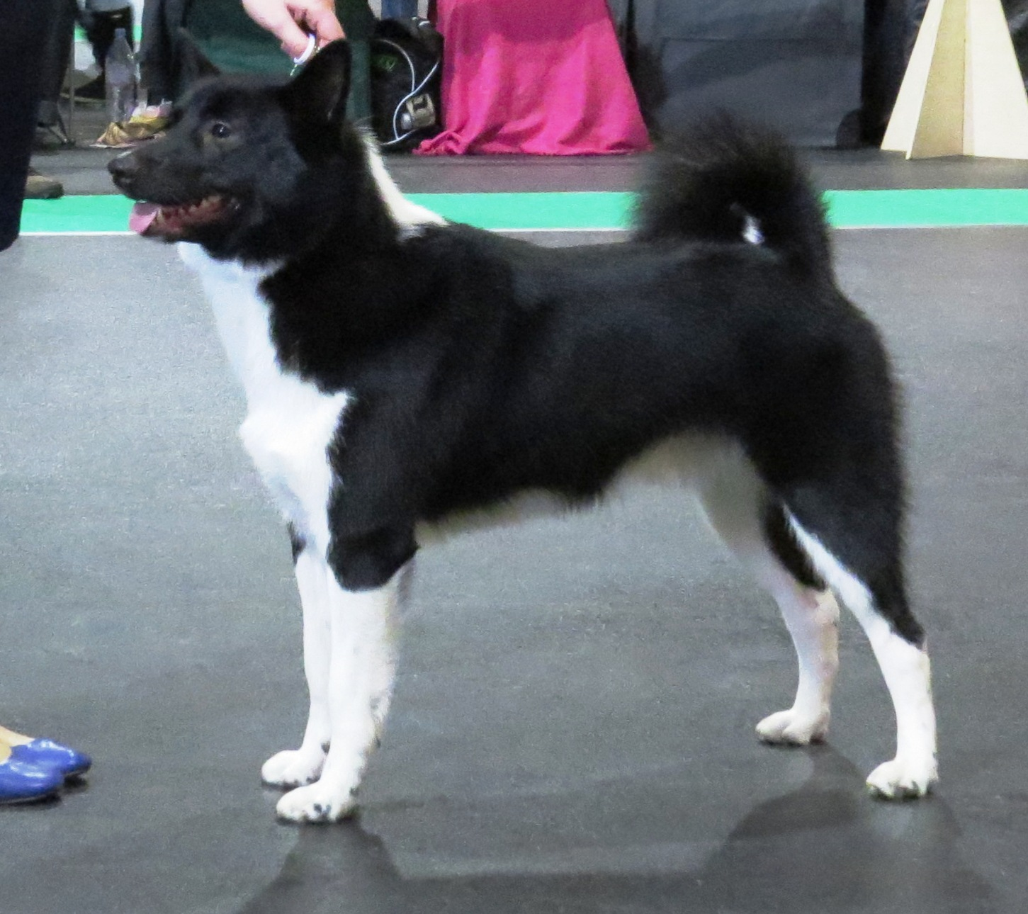 Riga, Baltic Winner -2013, 9-10 Nov - Russi-European Laika